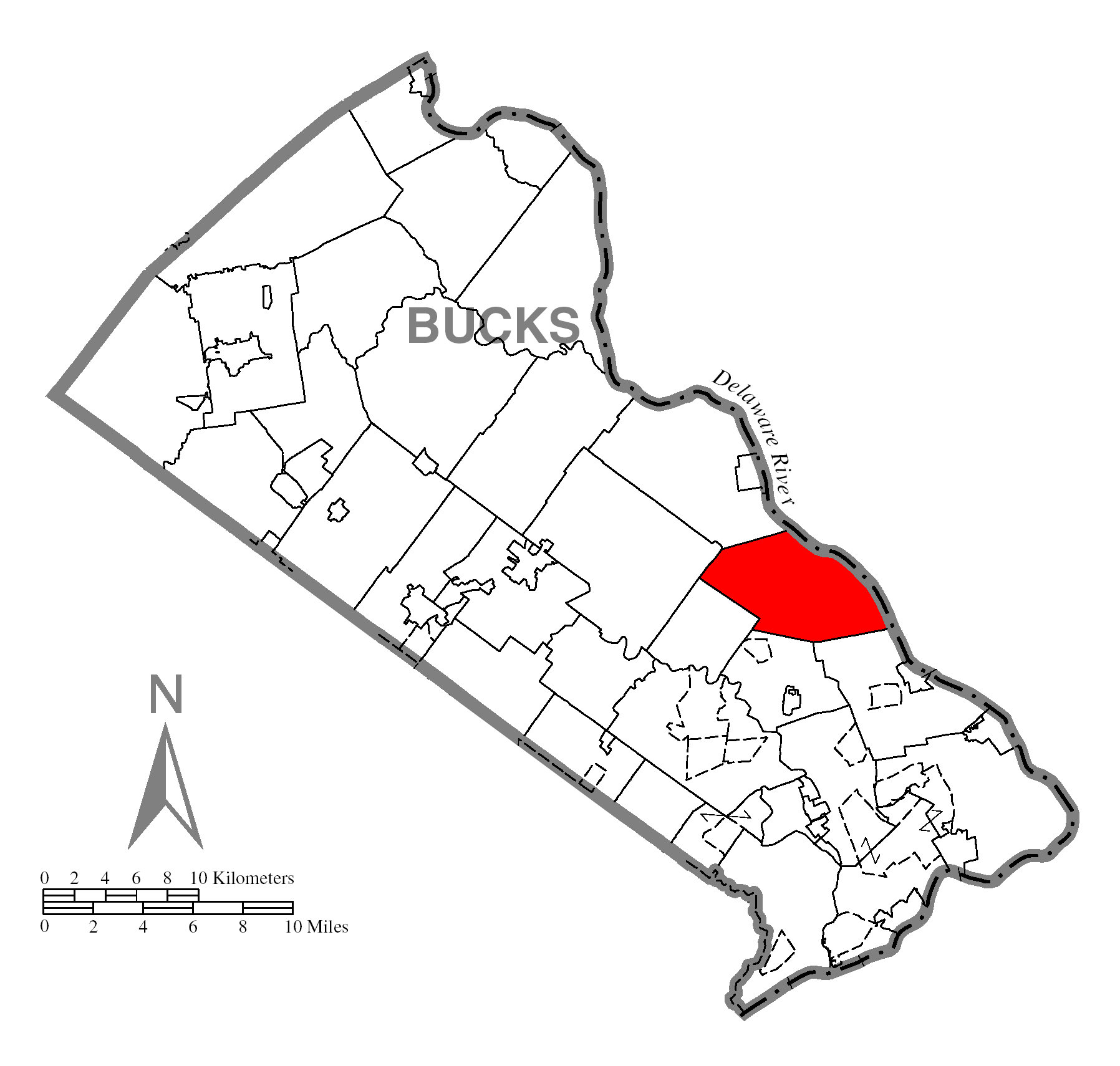 A map of Bucks County showing Upper Makefield Township, Pennsylvania (alternate) highlighted on the map.